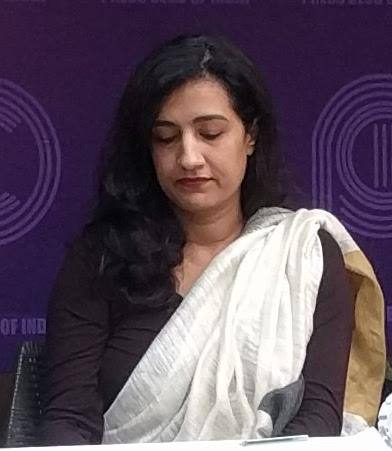 Karuna Nundy at Press Club of India. Book Launch of "Loose Pages: Court Cases That Could Have Shaken India".